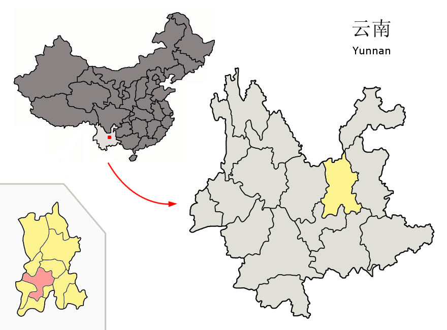 Location of the 4 contiguous Kunming City Districts (pink) and Kunming prefecture (yellow) within Yunnan province of China Map drawn in september 2007 using various sources, mainly : Yunnan province administrative regions GIS data: 1:1M, County level, 1990 Yunnan Counties map from Yunnan Province map from